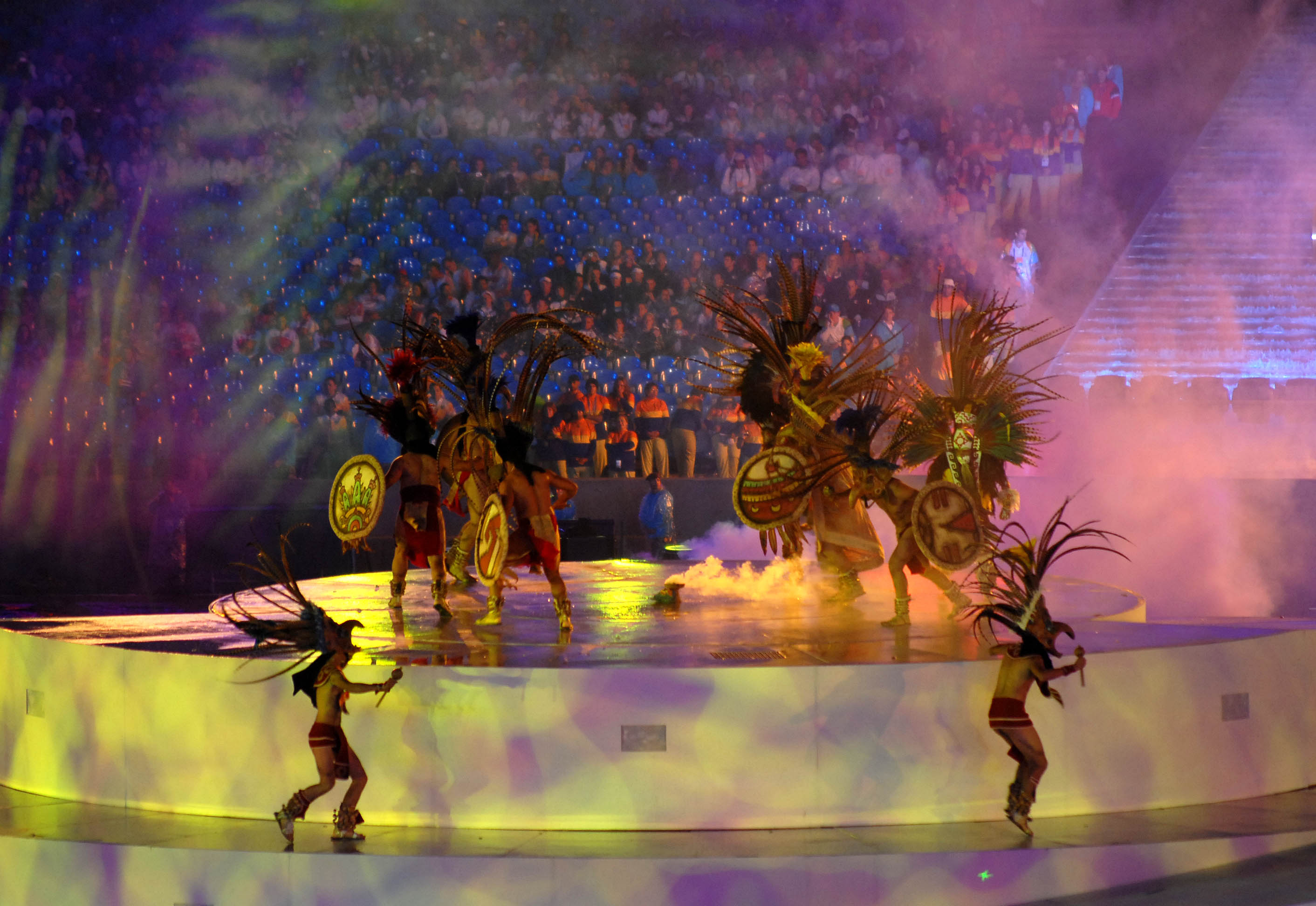 Rio 2007 Pan American Games Closing Ceremony